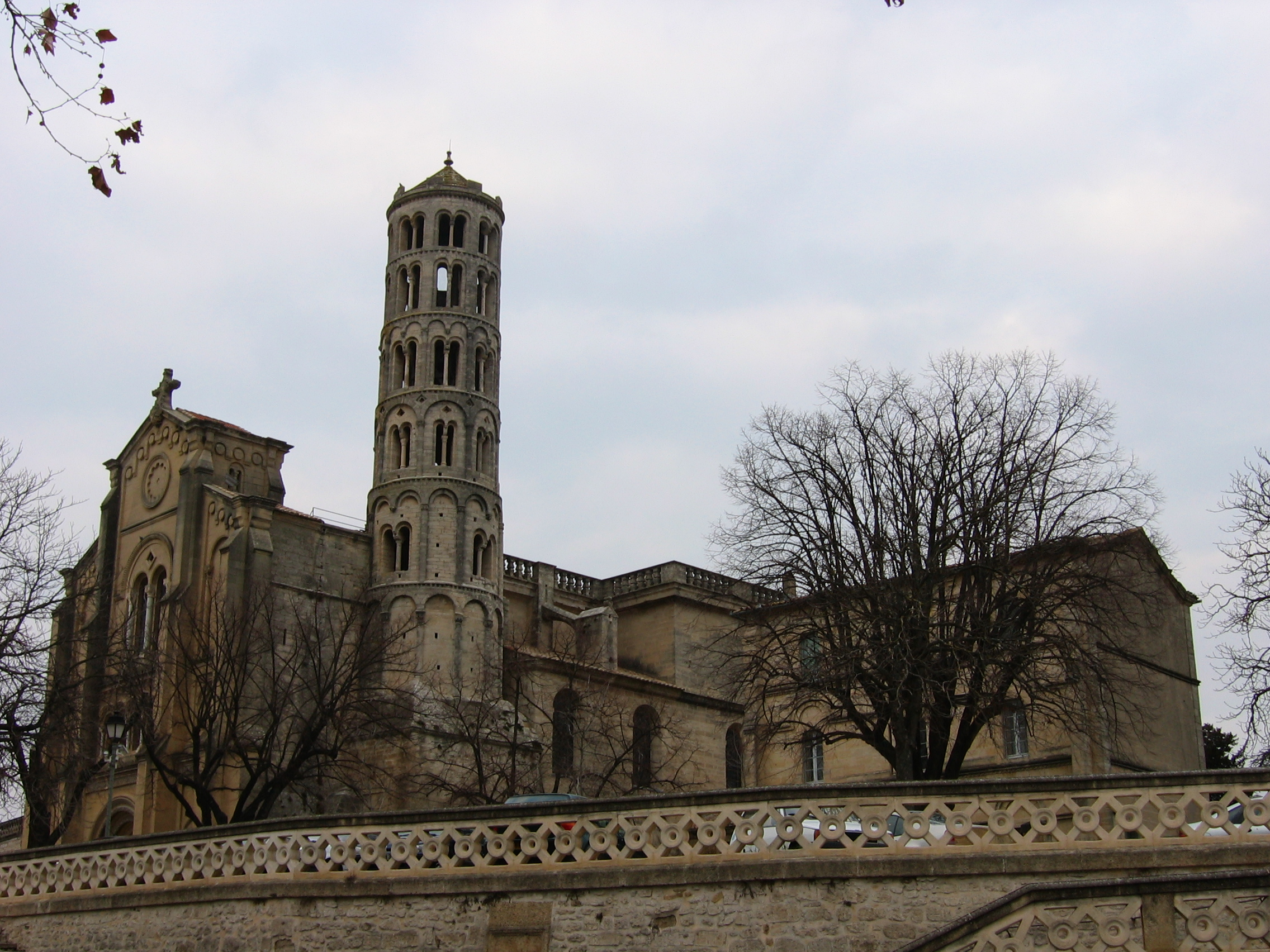 Photo taken by Poppy in January 2006. Uzès - Castle : Cathedral Saint Théodorit.